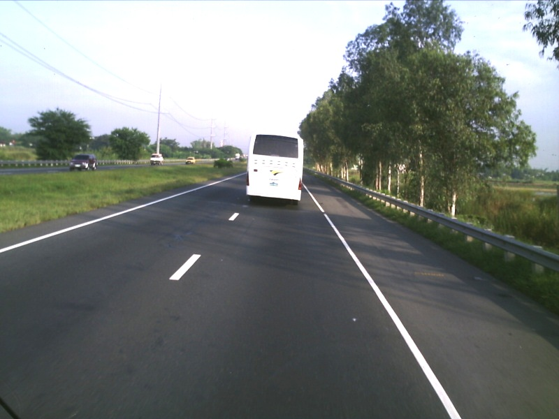 The part of North Luzon Expressway which has four lanes; two in each direction. Shot taken in San Simon, Pampanga.